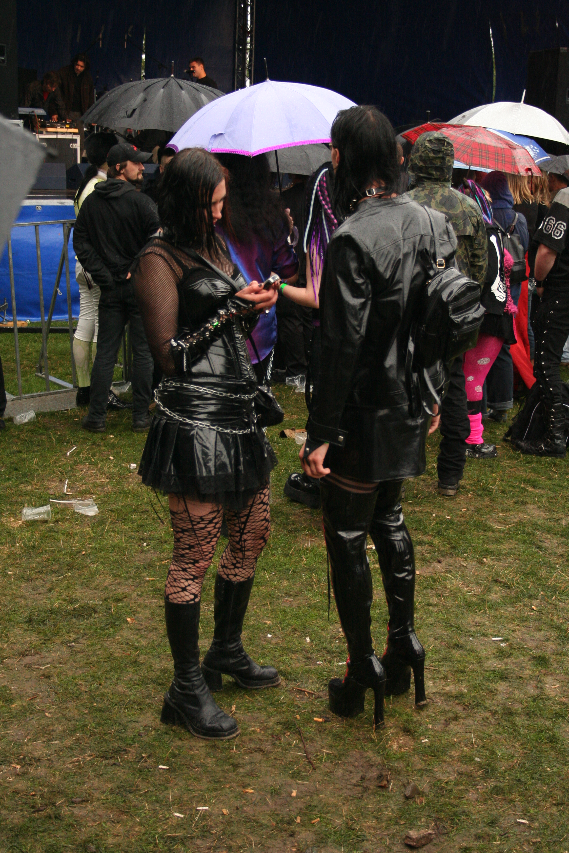 Castle Party 2007